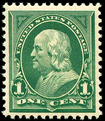 US Postage stamp, Benjamin Franklin issue of 1898, 1c, blue